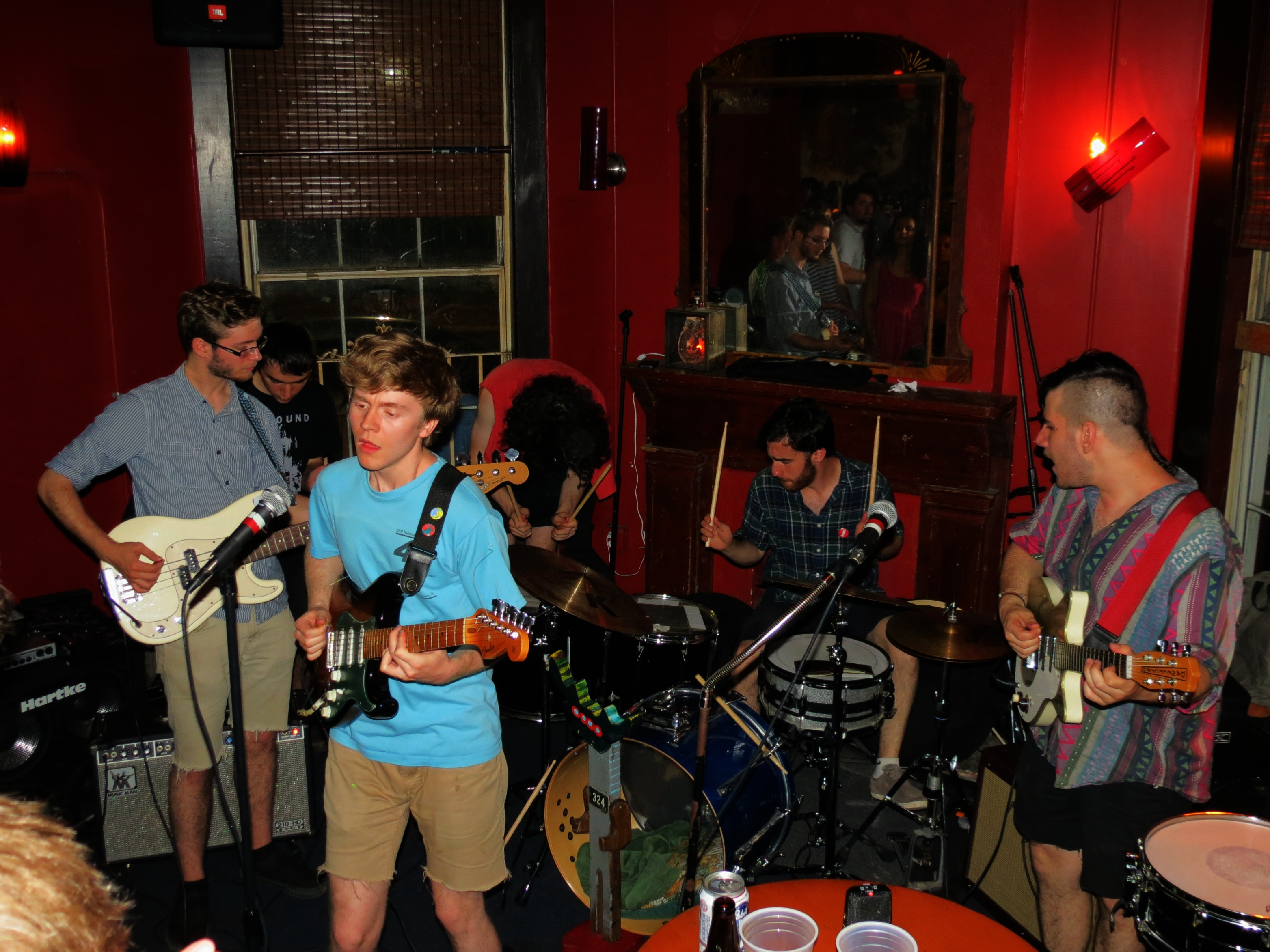 Indie rock group Pinegrove perform at the Circle Bar in downtown New Orleans, Louisiana in June 2014. Photo taken by Frank Maggiore.